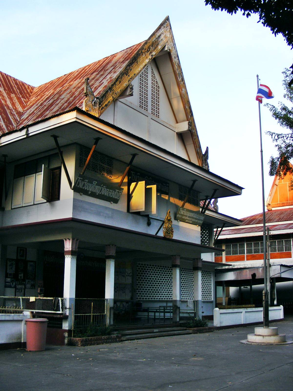 Buddhist school in Wat Klongpho .in Ban Ko subdistrict, Mueang Uttaradit, Uttaradit Province, Thailand. on February 10, 2008.